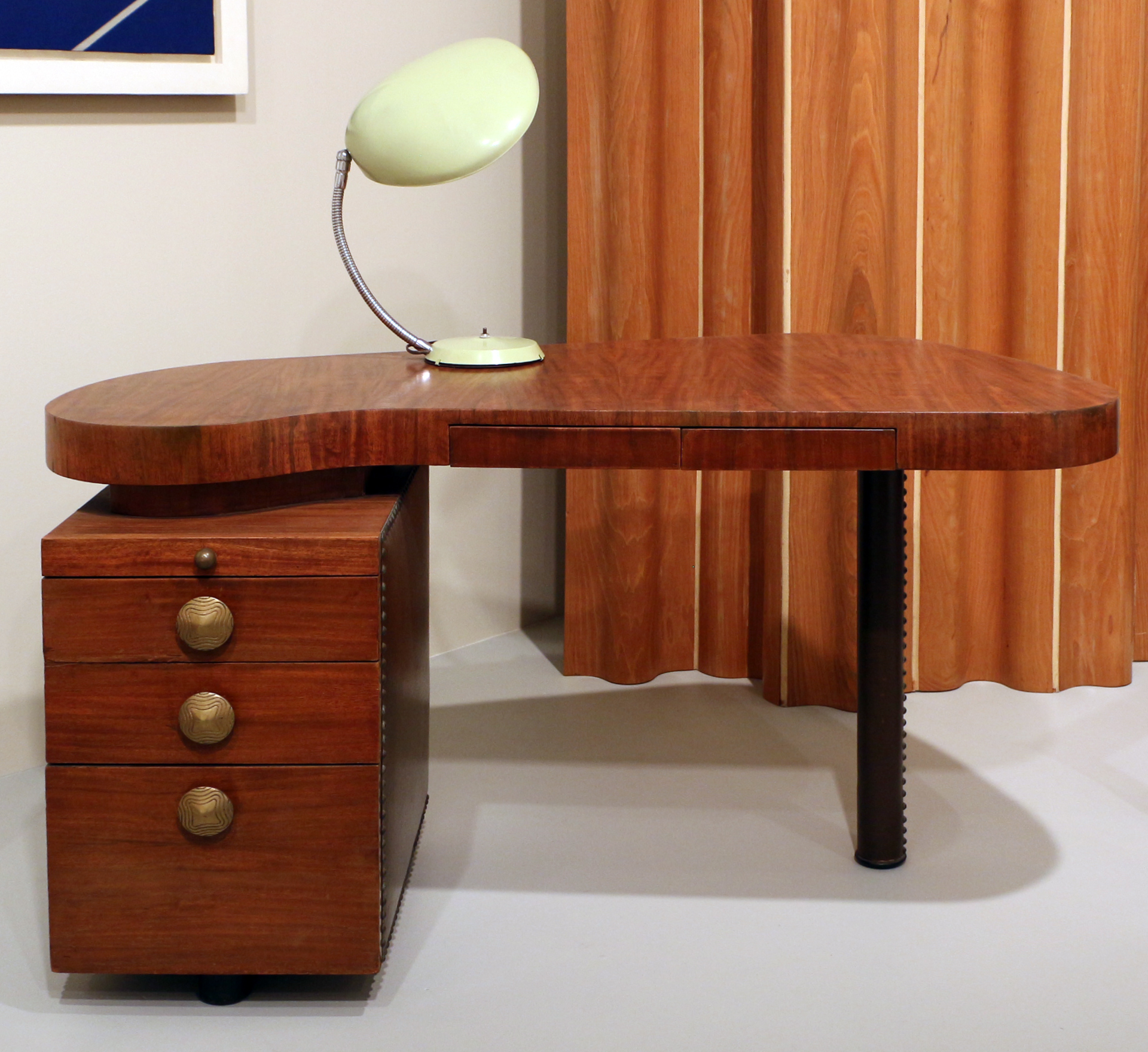 American furniture in the Art Institute of Chicago